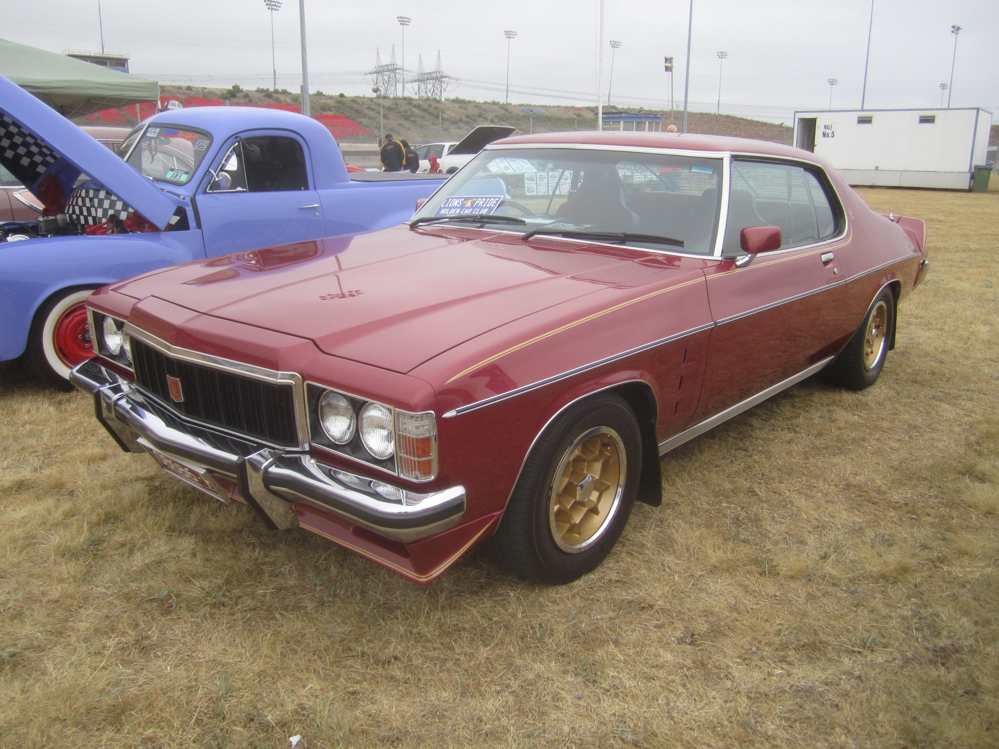 Red Metallic Holden HX Limited Edition. Built in Sept 1976. 580 made. The Holden HX was a facelifted Holden HJ, itself a facelifted Holden HQ. The Monaro GTS was the only Monaro in the HX range and it was only available as a 4 door sedan. The only 2 door coupe in the HX range was the Holden Limited Edition, produced in September 1976 to use up the remaining 2 door body shells. Engine; 308 V8